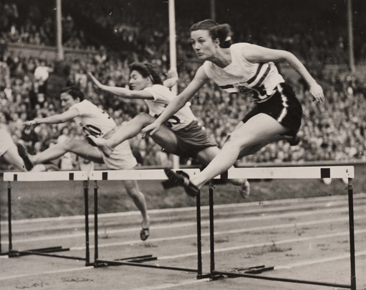 Maureen Gardner wins heat two of Women’s 80m Hurdles, Olympic Games, London, 1948. Daily Herald Archive at the National Media Museum